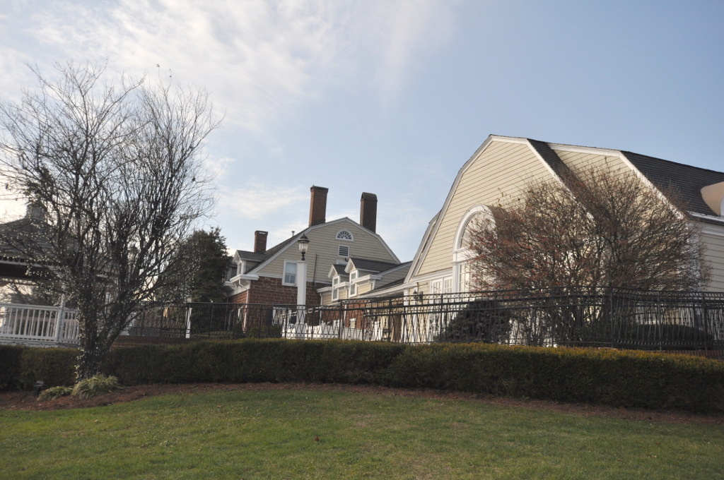 John Hopper House, Hackensack, New Jersey. Now a restaurant/inn/function space.